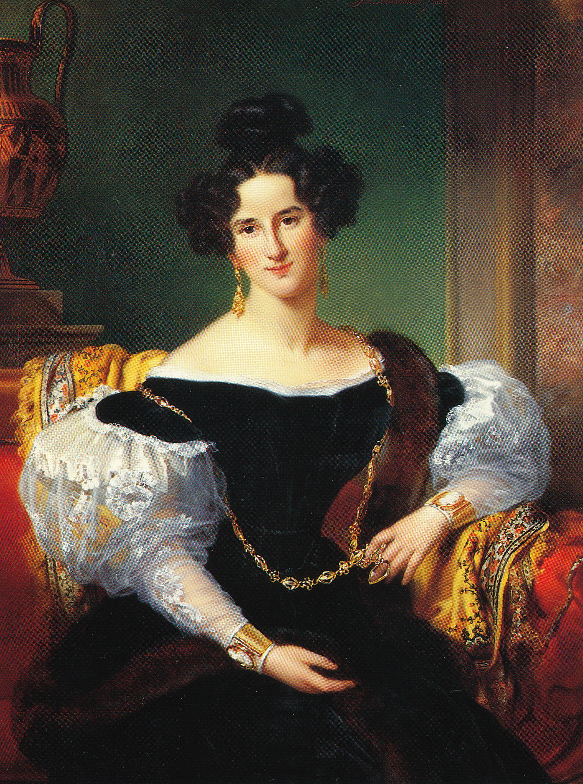 Olga Emilie Borski-Sillem, 19th century oil on canvas